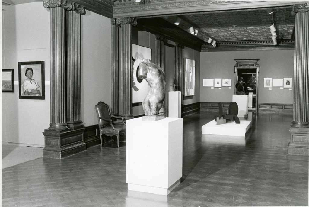 Artwork on display in the "Smithsonian" exhibit at the Cooper-Hewitt Museum of Decorative Arts and Design in New York City. The exhibition contained hundreds of objects borrowed from all branches of the Smithsonian. The Cooper-Hewitt Museum became part of the Smithsonian Institution in 1969.